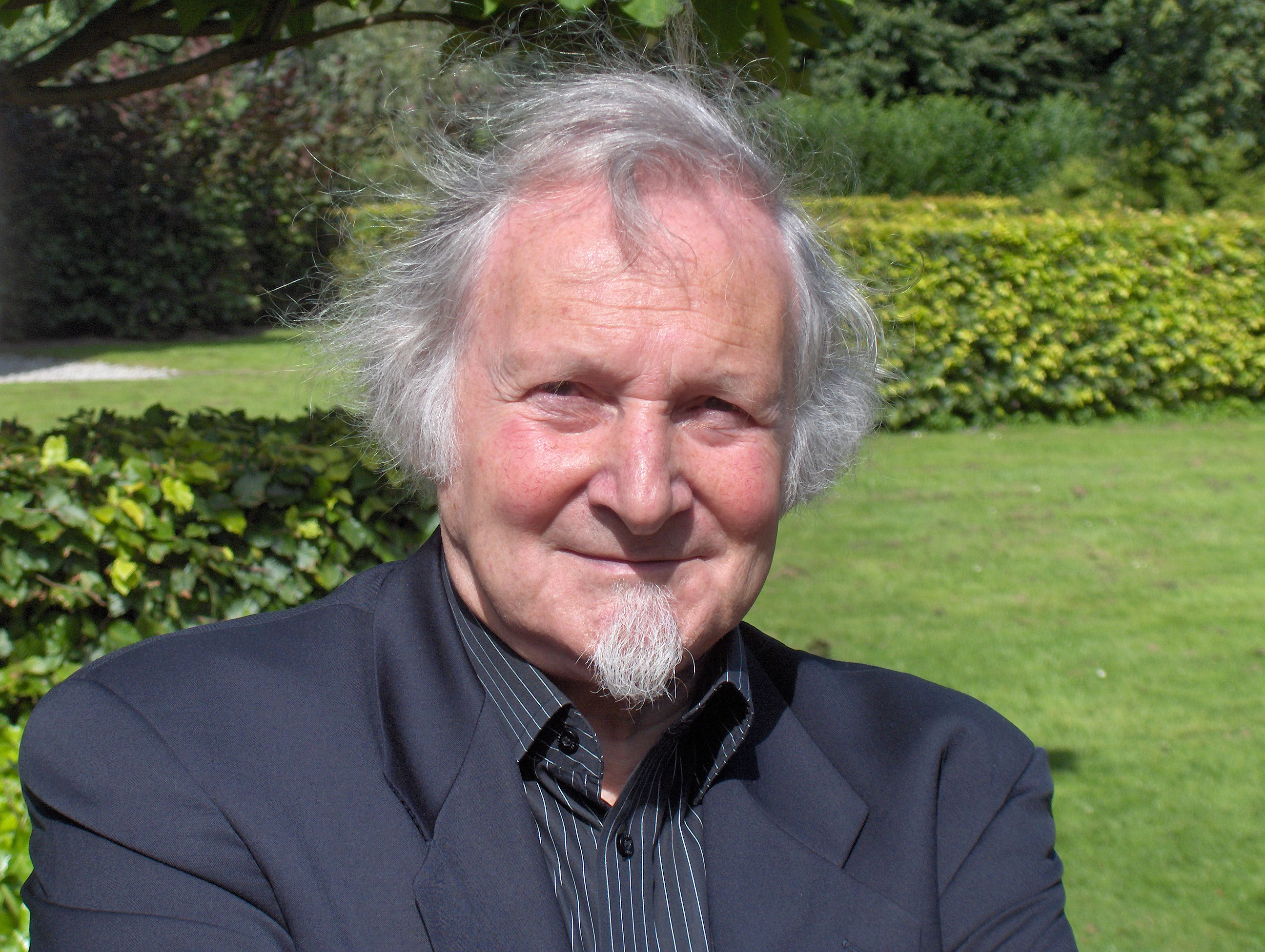 Willy Bosschem, Belgian painter; photo made with authorisation of the artist